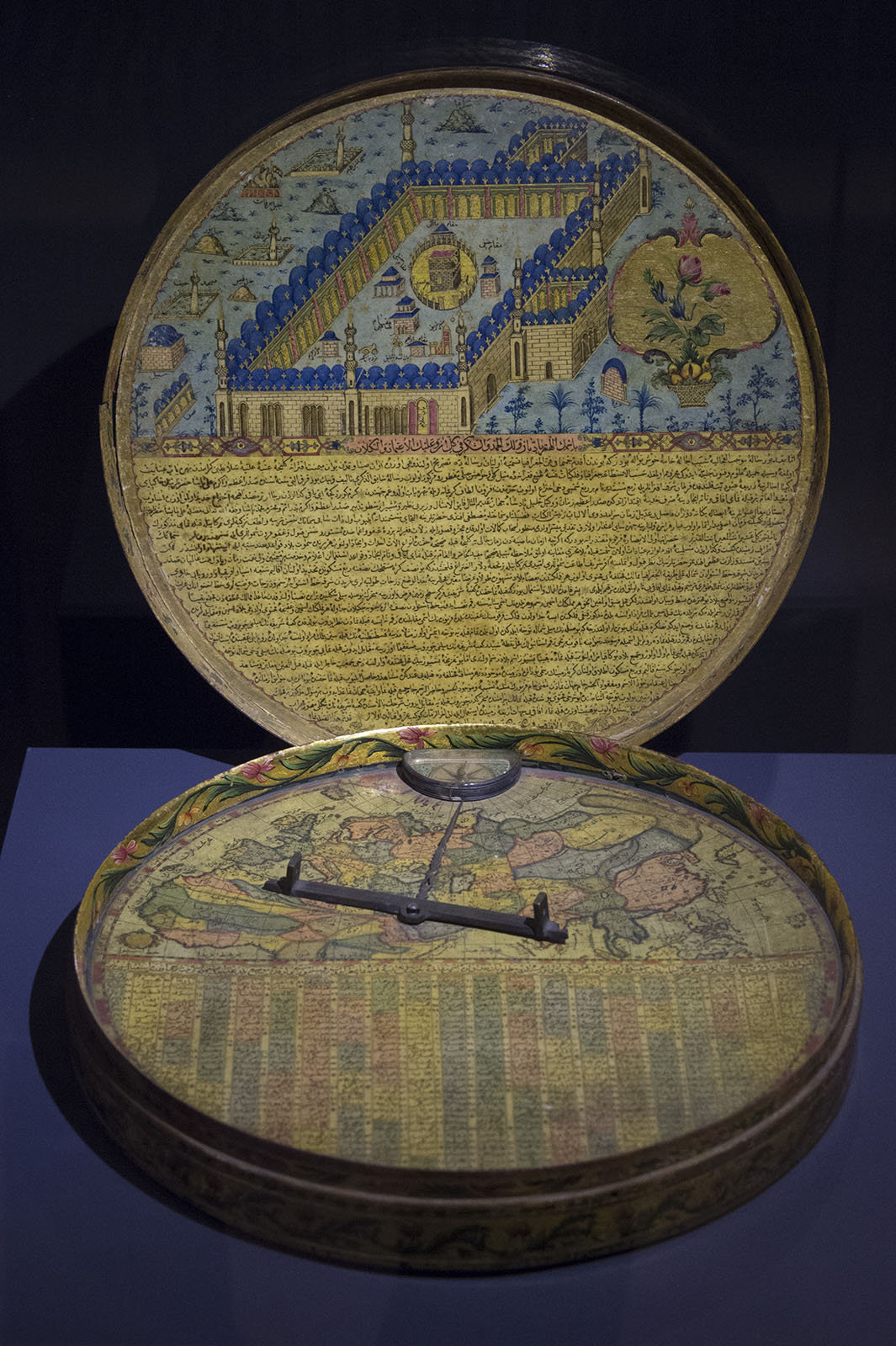 Qibla Numa, 1738, Ottoman, an instrument to find the direction for prayer. Description of the instrument appears here: Qibla Compass which Shows the Direction of Mecca